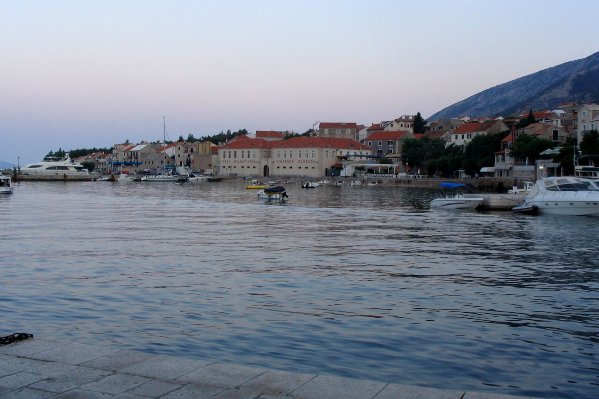 Bol, island of Brač, Croatia, at dusk